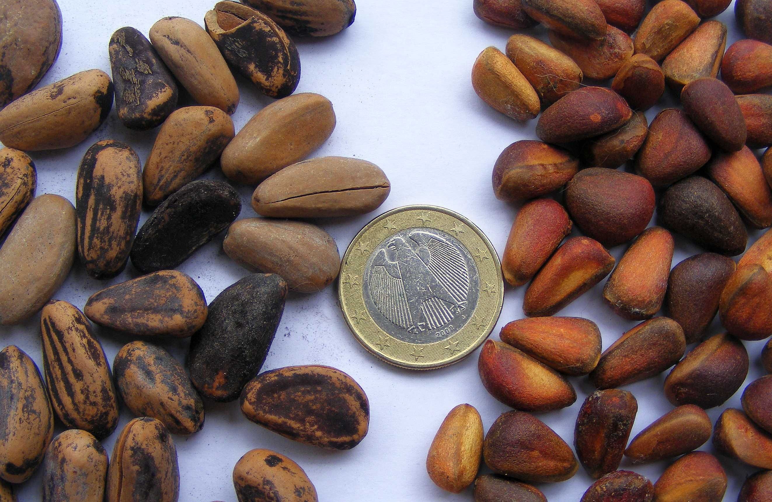 Pinus cembra seeds (right) and Pinus pinea seeds (left)